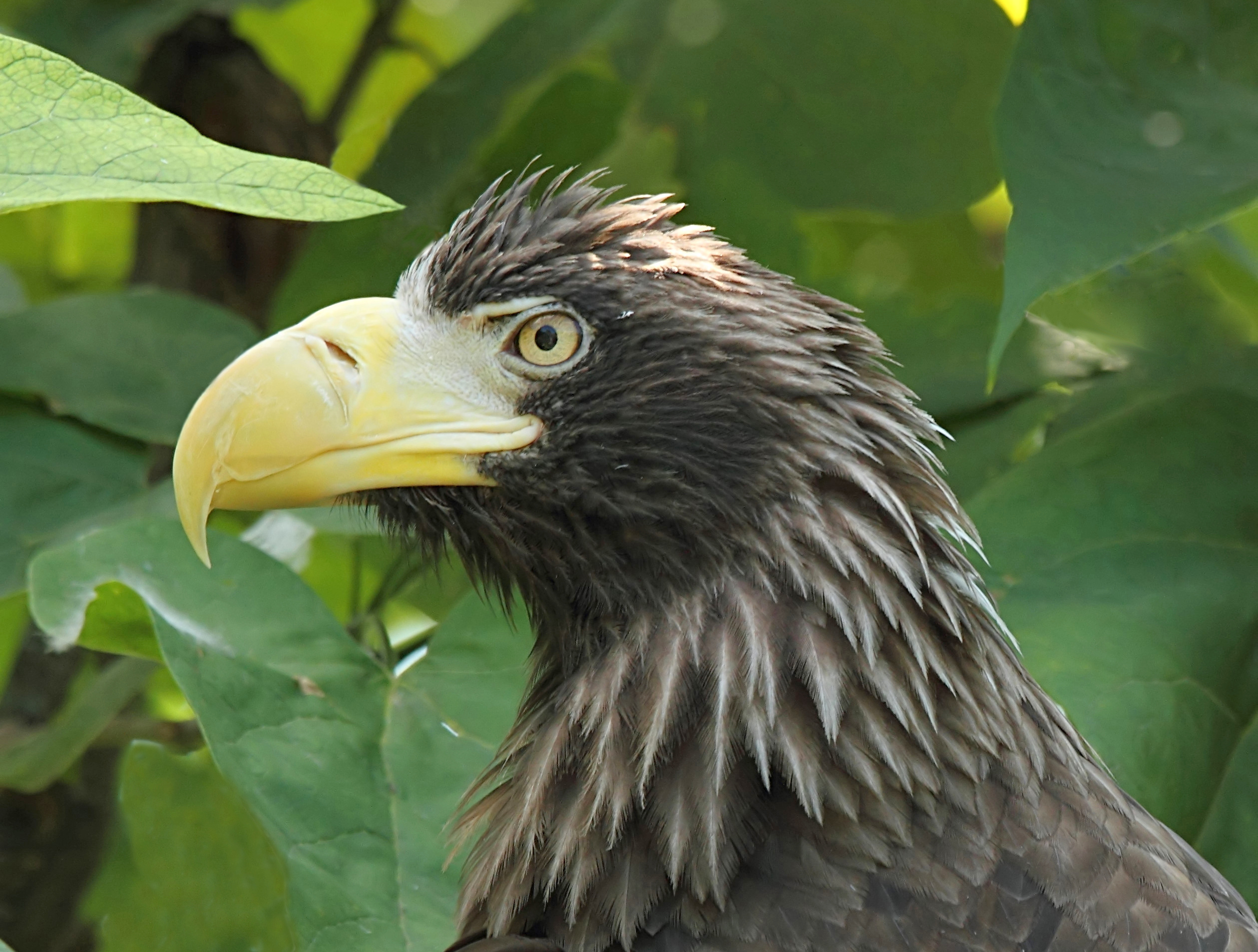 Steller's Sea Eagle - taken at the Cincinnati Zoo.